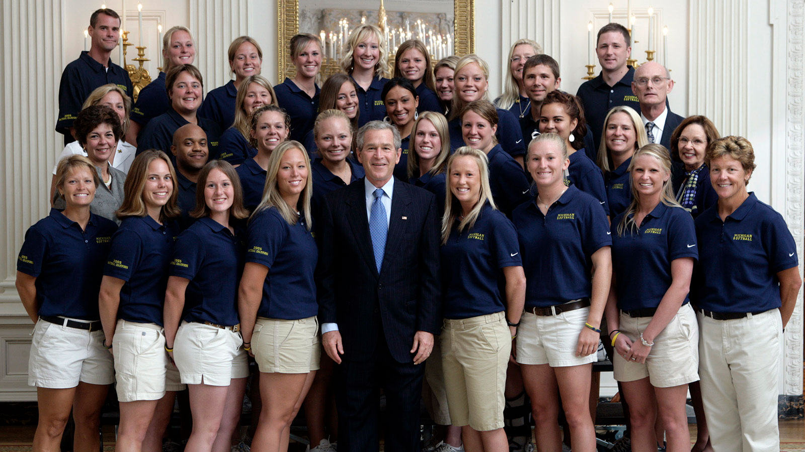 Photo Op/Remarks to the 2004 and 2005 NCAA Sport Champions. State Floor. South Lawn. President George W. Bush stands with members of the University of Michigan Women's Softball team Tuesday, July 12, 2005, during Championship Day at the White House.